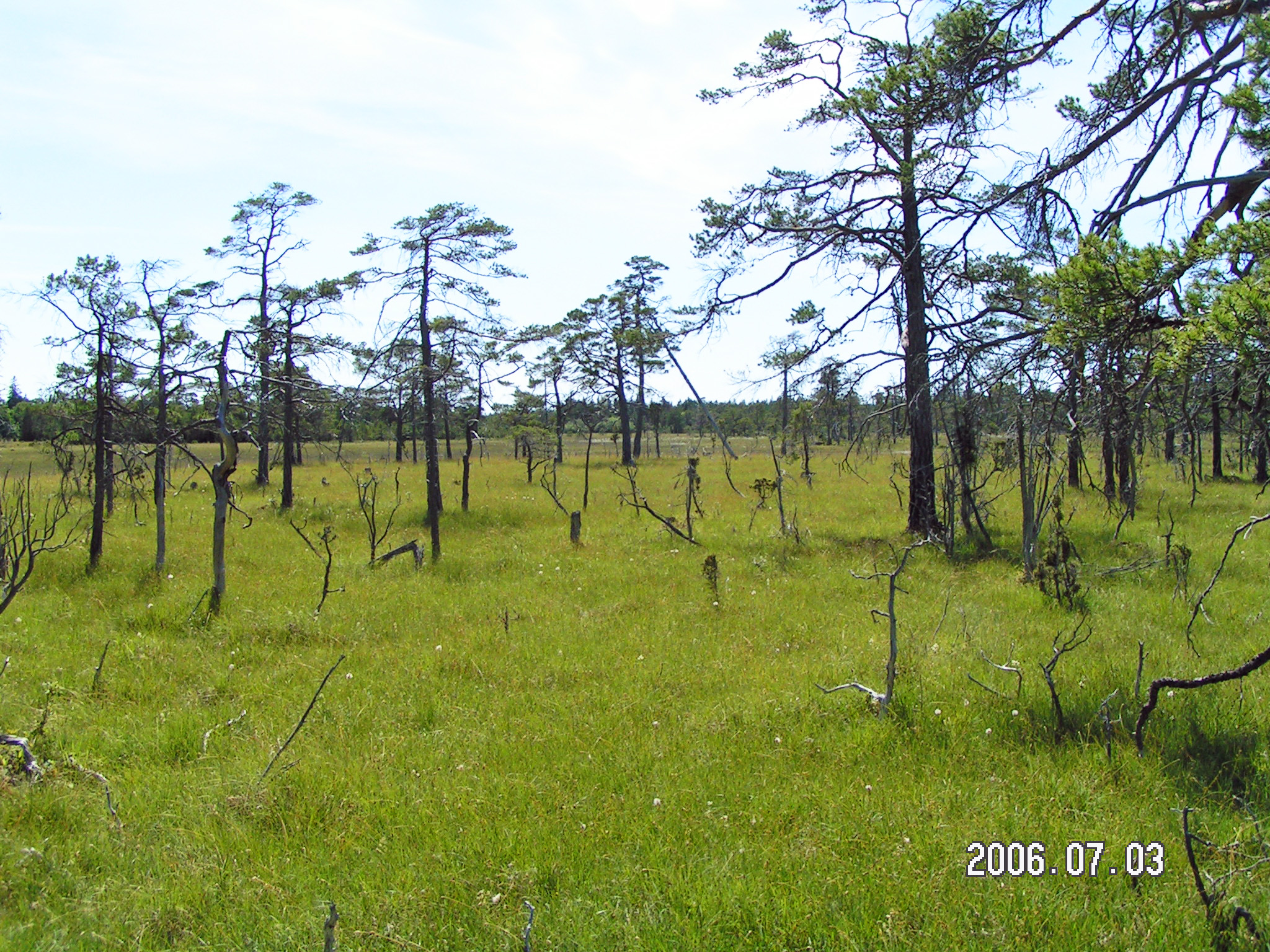 A swamp area in the Kallgatburg nature reserve, Gotland, Sweden, July 2006.